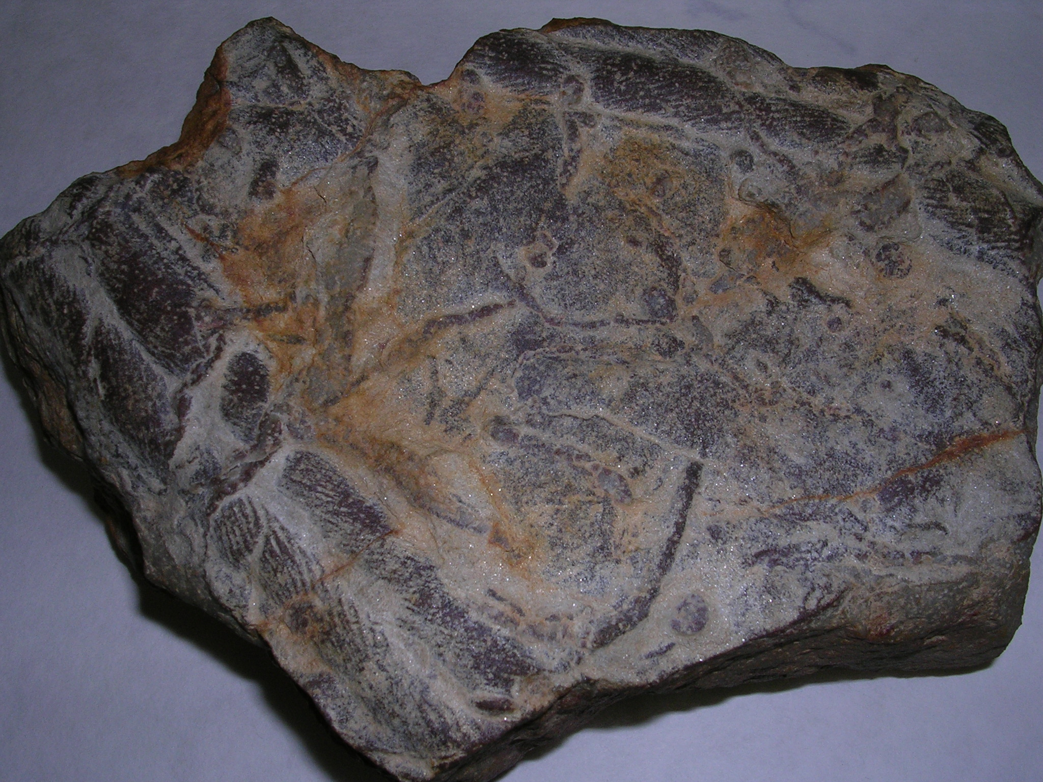 Cruziana fossil (Late Ordovician) founded in Helechosa del Monte (Badajoz), in a laboratory of practices of the Faculty of Sciences of the University of Corunna.